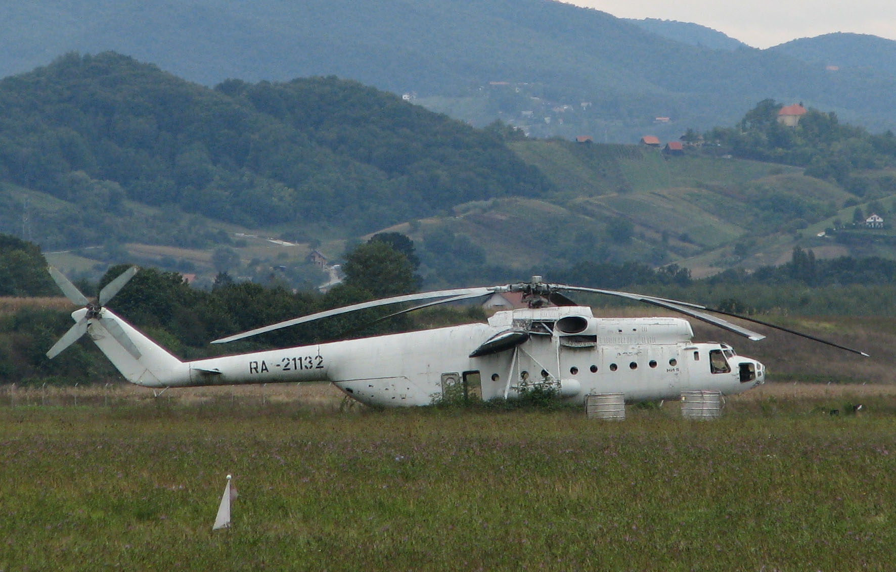 Mil Mi-6 at Lučko Zagreb Air Base